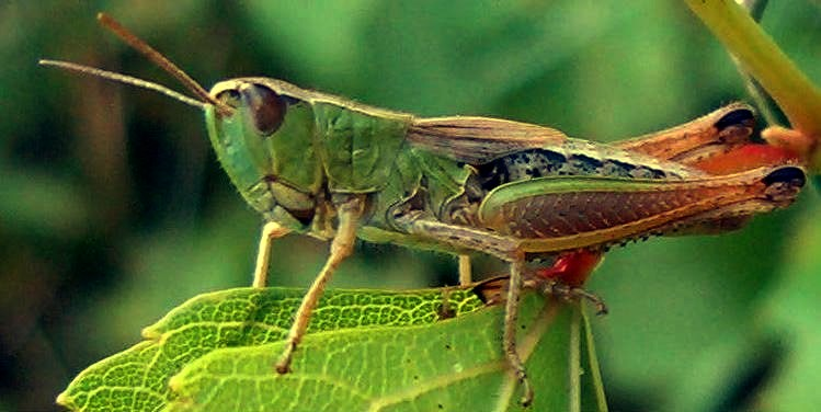 A nice kinda locust, I can't identify it [1]. A so pretty picture, isn't it? It's name is Zizi, I guess.